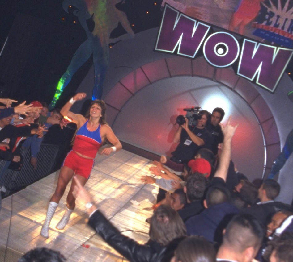 Selina Majors entrance at a WOW! Women of Wrestling event